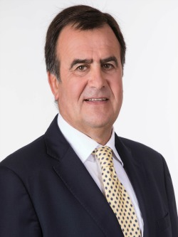 Official photograph of Pablo Prieto as deputy of the Republic in 2018